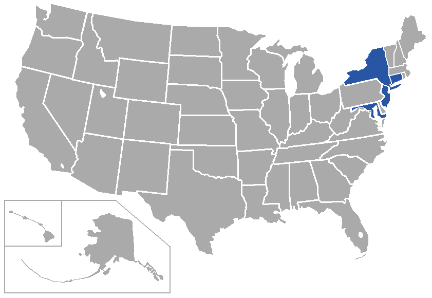 Derived from [1]; map of states with Metro Atlantic Athletic Conference schools